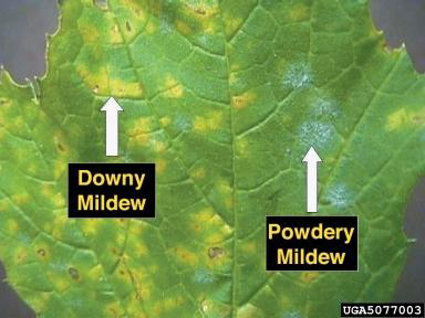 Examples of downy and powdery mildew on a grape leaf. Example of powdery mildew (right) along with Downy mildew on a grape leaf. Both downy and powdery mildew can present an occasional viticultural threat to South African vineyards.